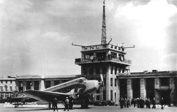 Croydon Aerodrome postcard 1936